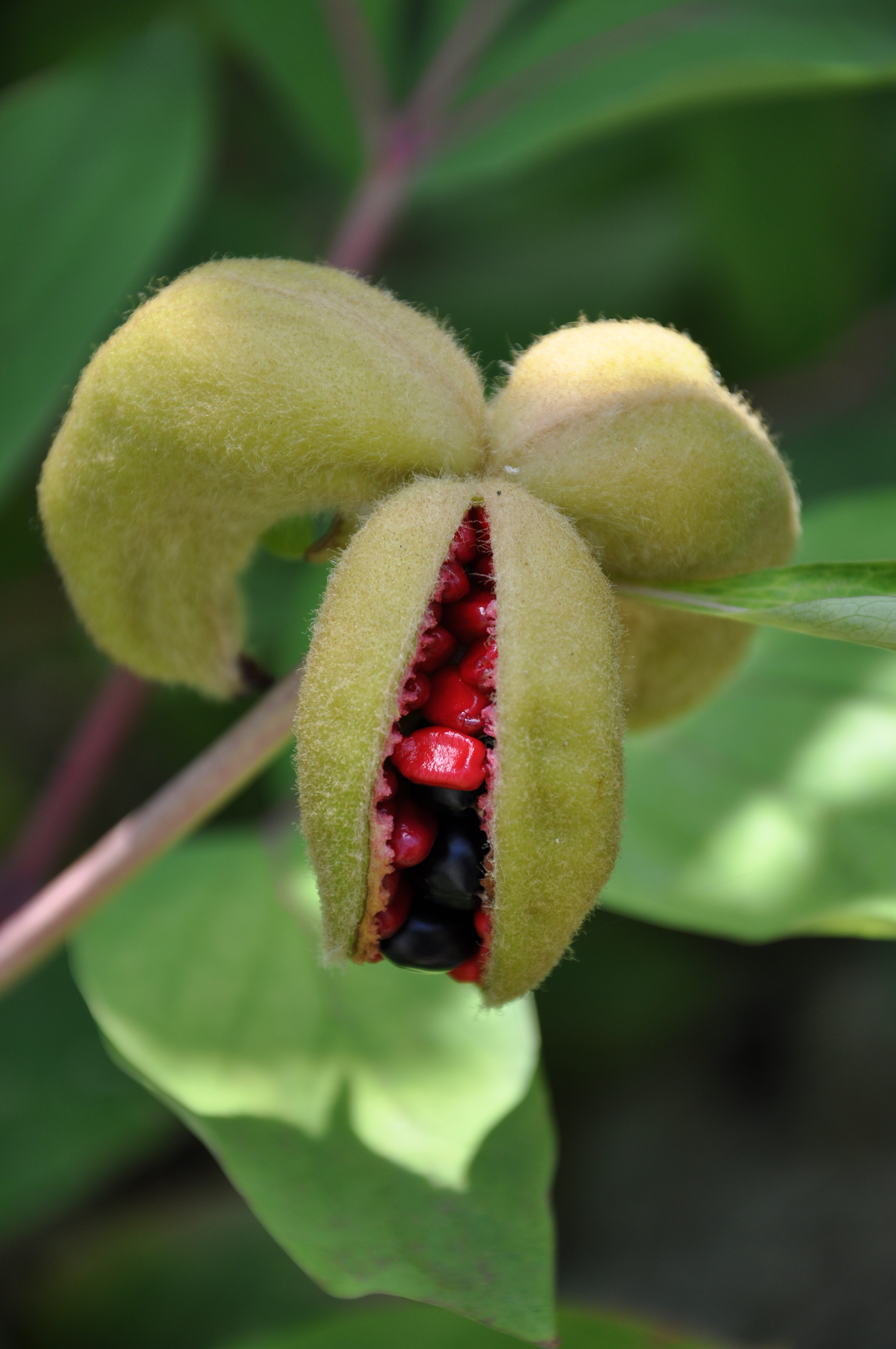 Wild Peony